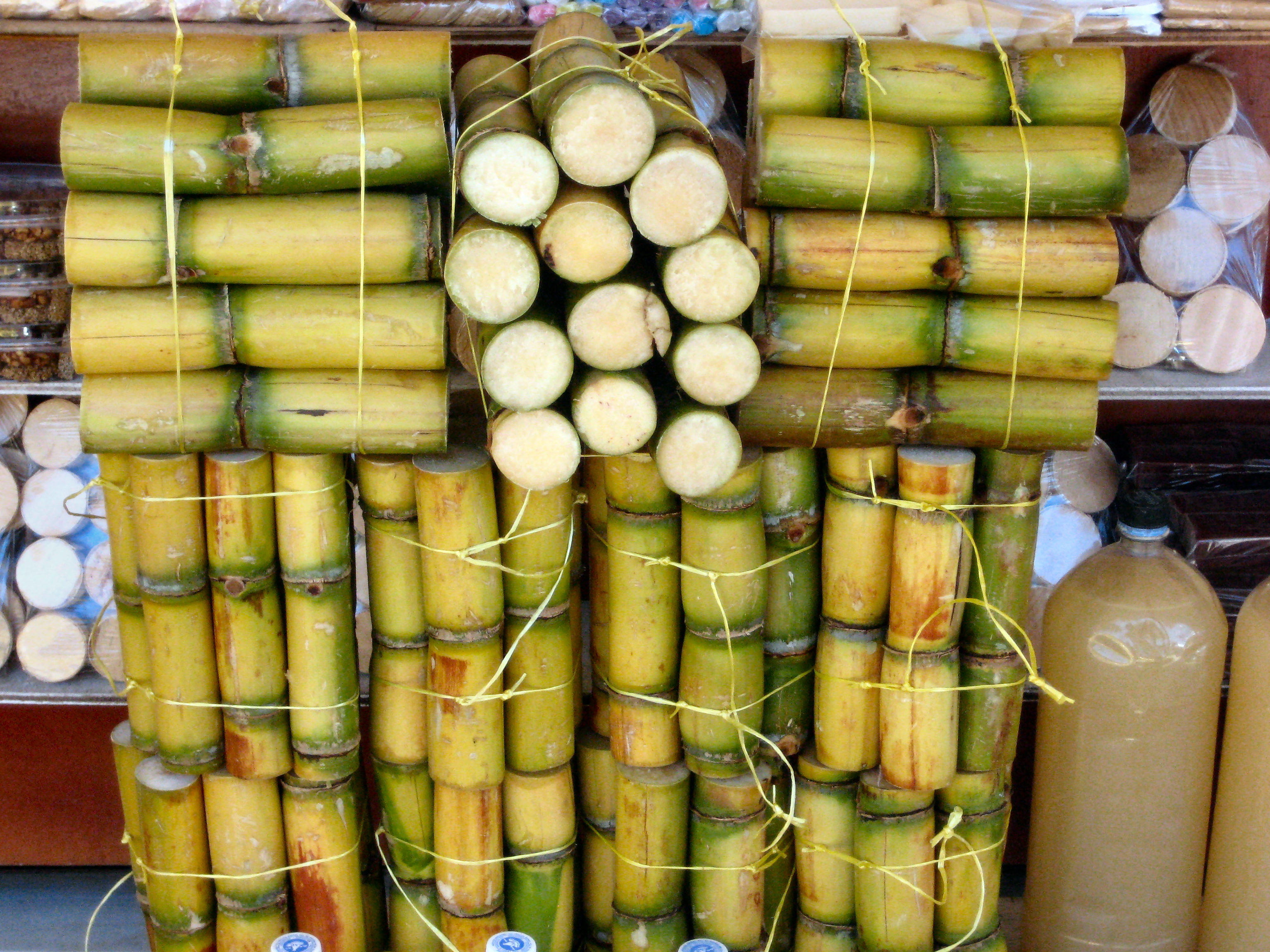 Sugar Cane Juice, Baños.